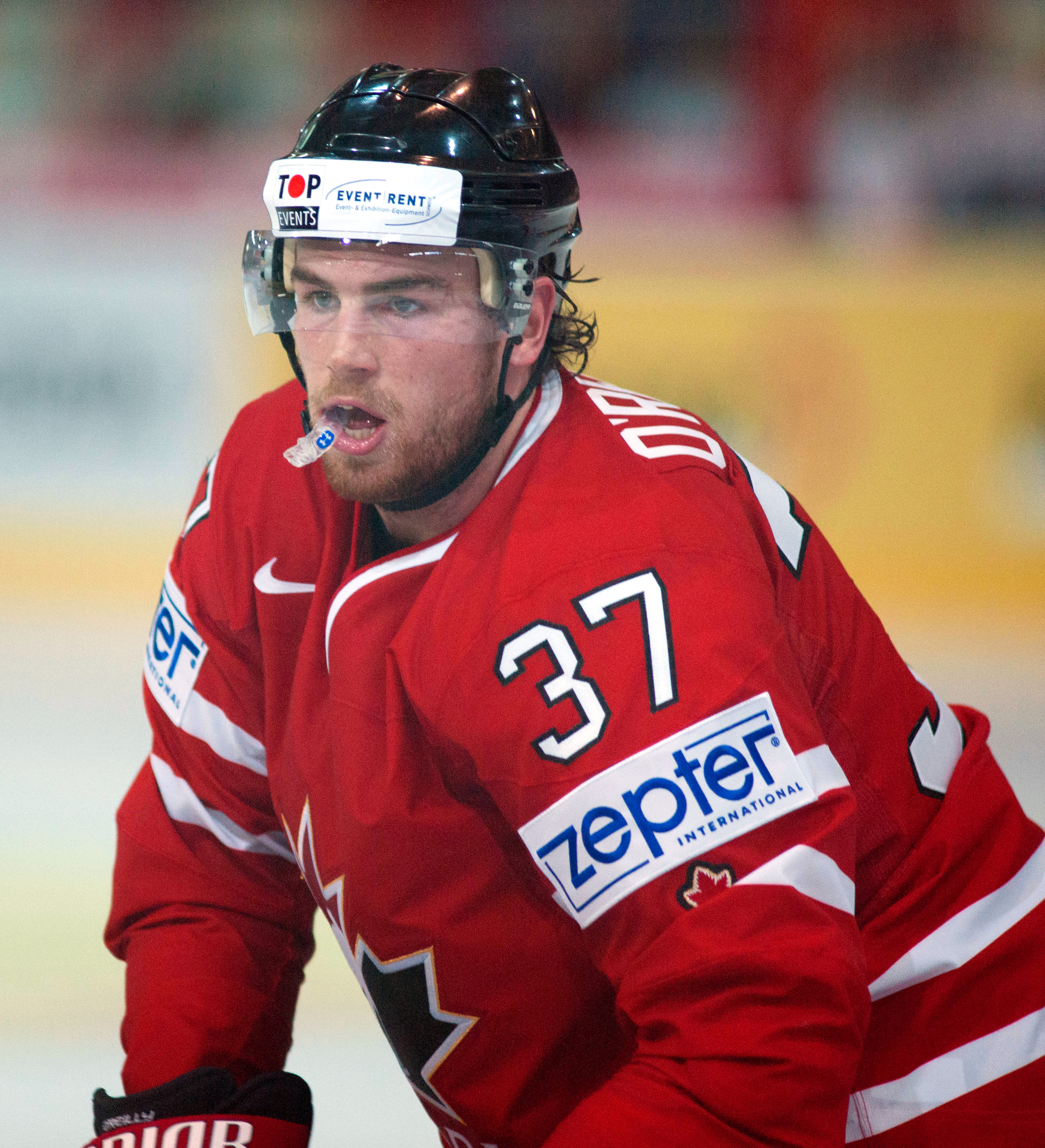 Switzerland vs. Canada, 29th April 2012